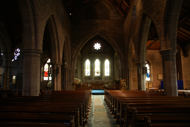 Brechin Cathedral, Brechin, Angus, Scotland - interior, looking to the chancel